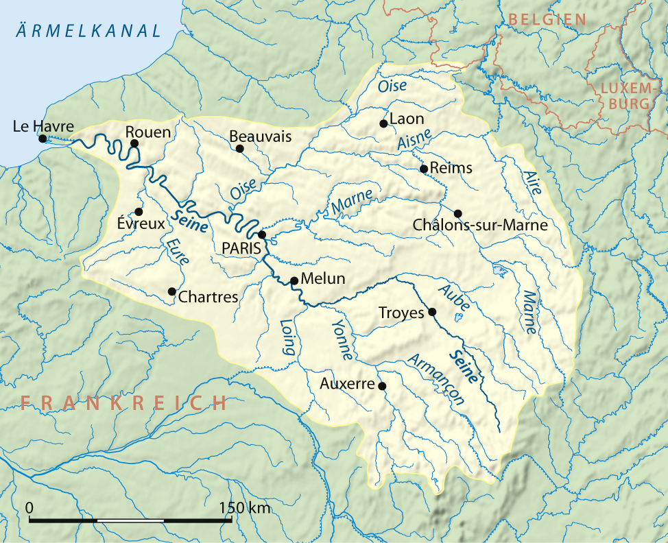 Drainage basin of Seine, German version